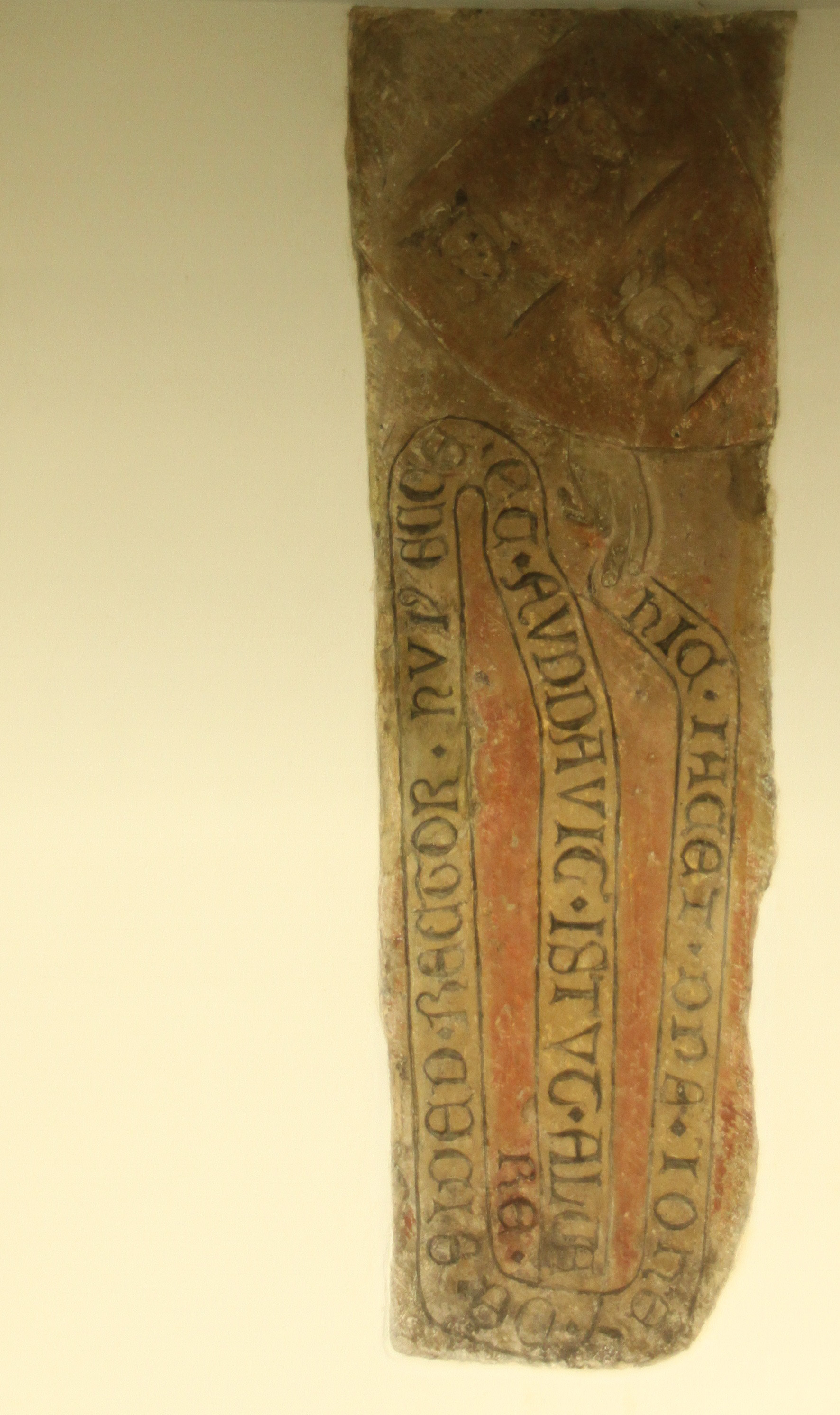 Der Grabstein des Johann von Siden